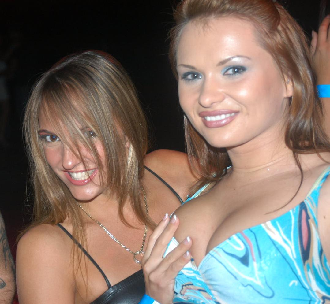 Lexi Love, Katja Kassin at West Coast Productions Party.